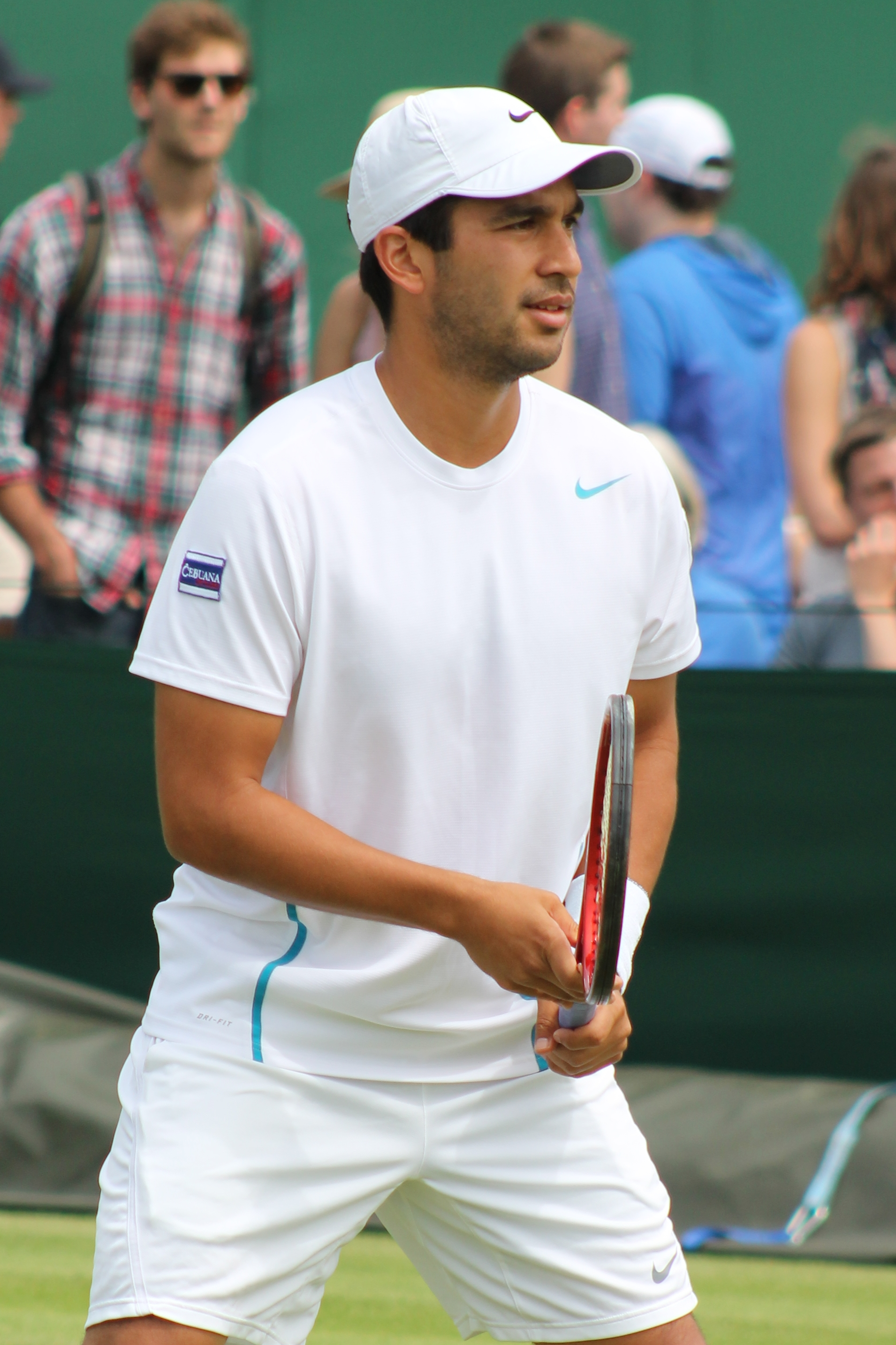 Treat Huey playing in the Men Doubles at Wimbledon 2013, Court 10, on 29 June 2013; partner was Dominic Inglot (GBR); opponents were Andre Begemann & Martin Emmrich (GER)